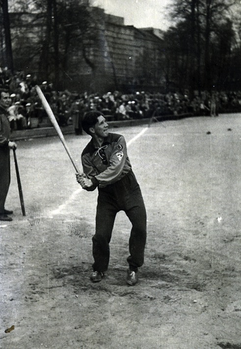 Esko Salminen (Finnish baseball game in Helsinki)